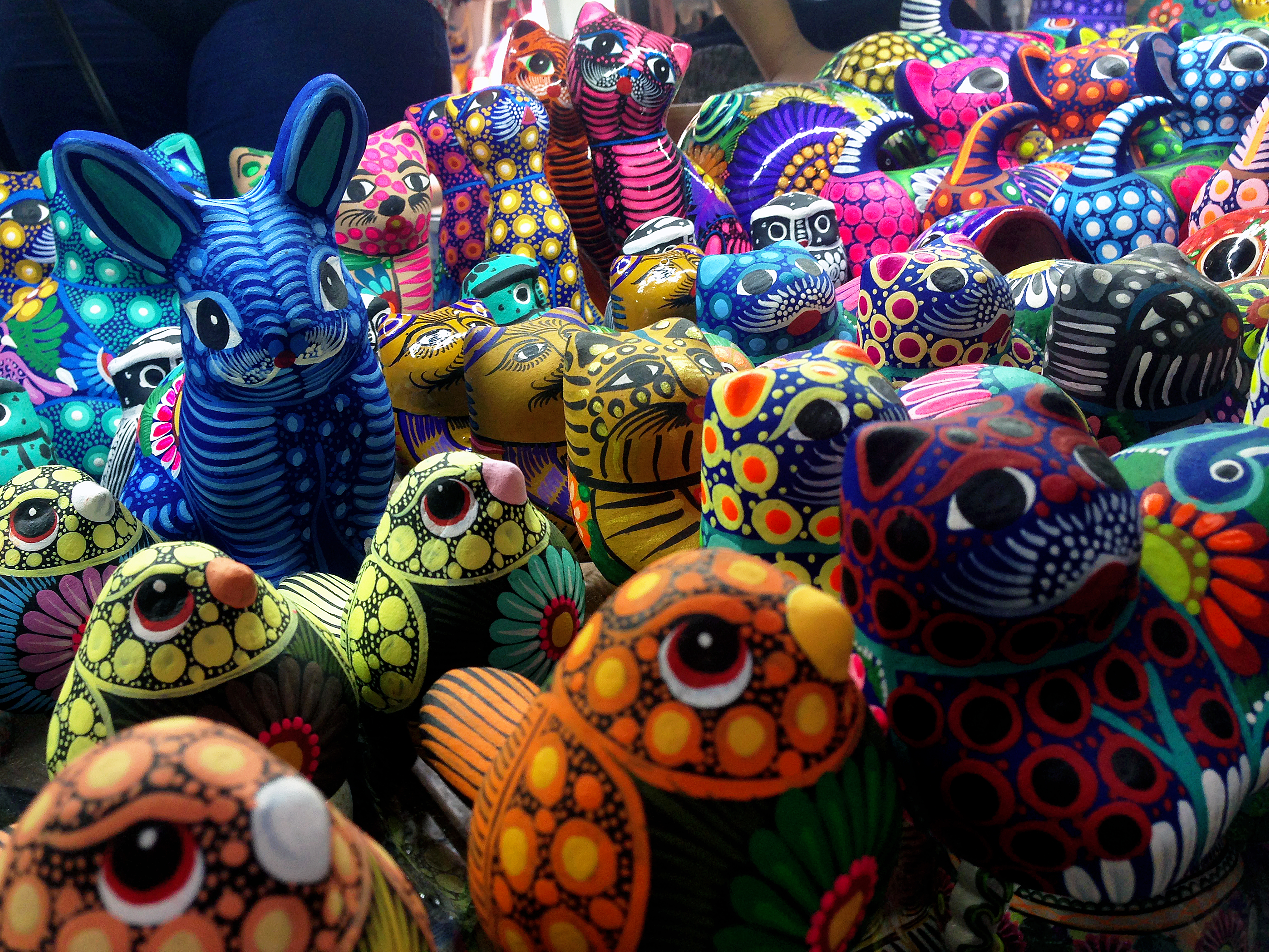 Processed with Lightroom This photo has been taken in the country: Mexico